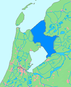 Maps od Ijsselmeer, of Netherlands